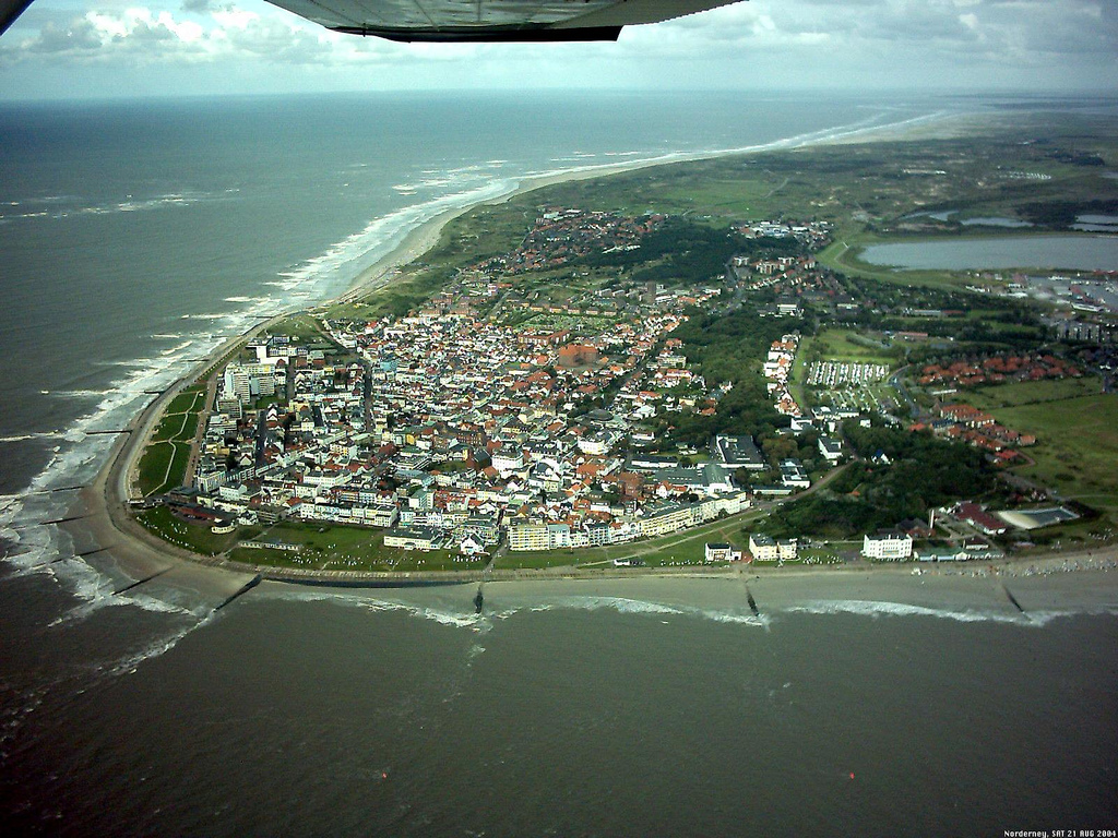 Norderney aerial photo, Norderney, Germany